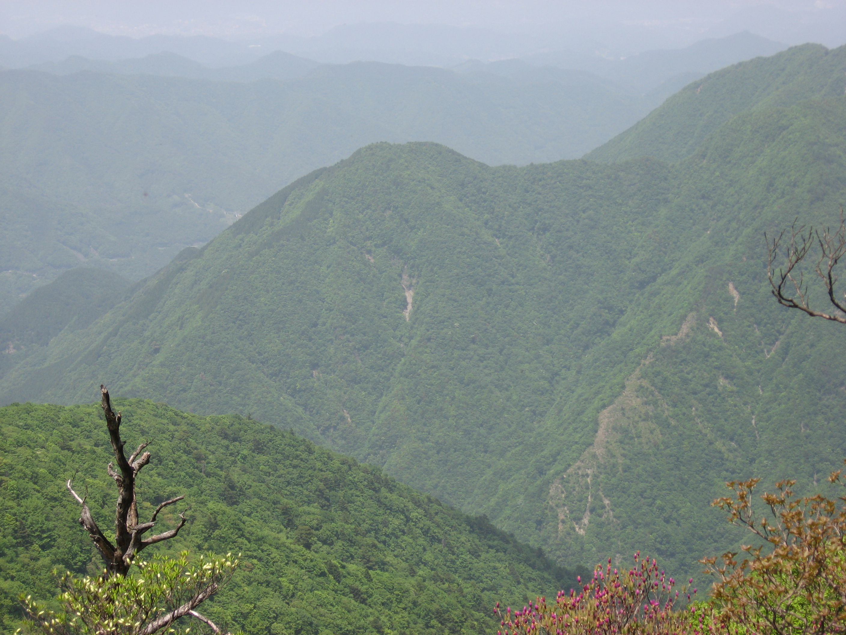 Mt.Kazamakinoatama, Mts.Tanzawa, Kanagawa, Japan.